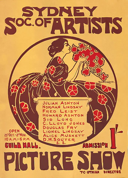 Poster for the Sydney Society of Artists picture show, 1907. Design by Australian illustrator Ruby Lindsay.